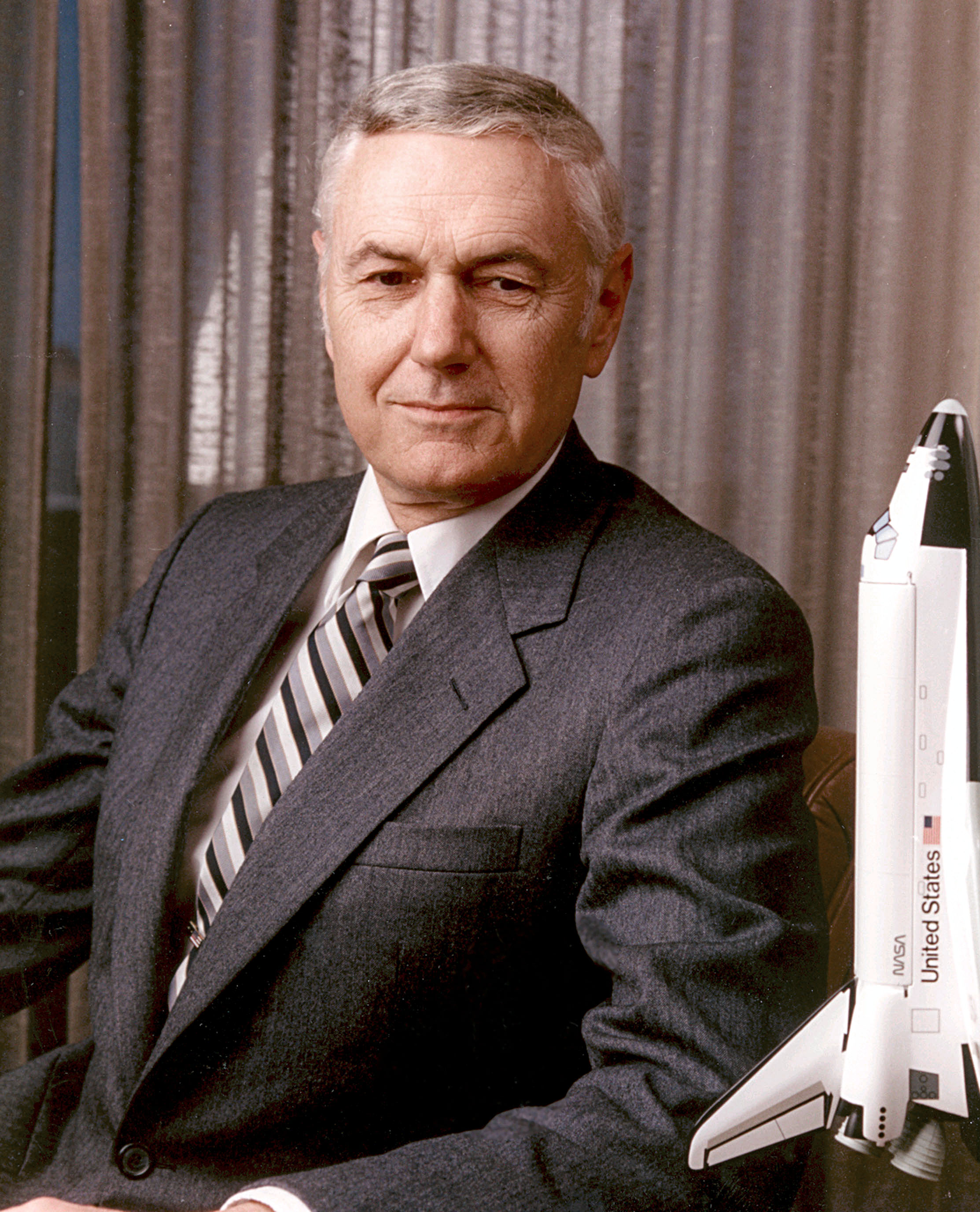 James M. Beggs served as NASA's sixth administrator from July 1981 to December 1985. Mr. Beggs received degrees from the U.S. Naval Academy and the Harvard Graduate School of Business Administration. He held positions at General Dynamics, Westinghouse Electric Corp., and the Summa Corp. Prior to becoming administrator, Mr. Beggs served as Associate Administrator, Office of Advanced Research and Technology at NASA from 1968-1969 and as Under Secretary of Transportation from 1969-1973. After leaving NASA in 1985, Mr. Beggs worked as a consultant.